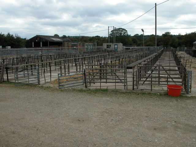 Andoversford Livestock Market. Once many market towns had livestock markets, though over the years many have been closed and the sites redeveloped, including the large regional market at Gloucester.